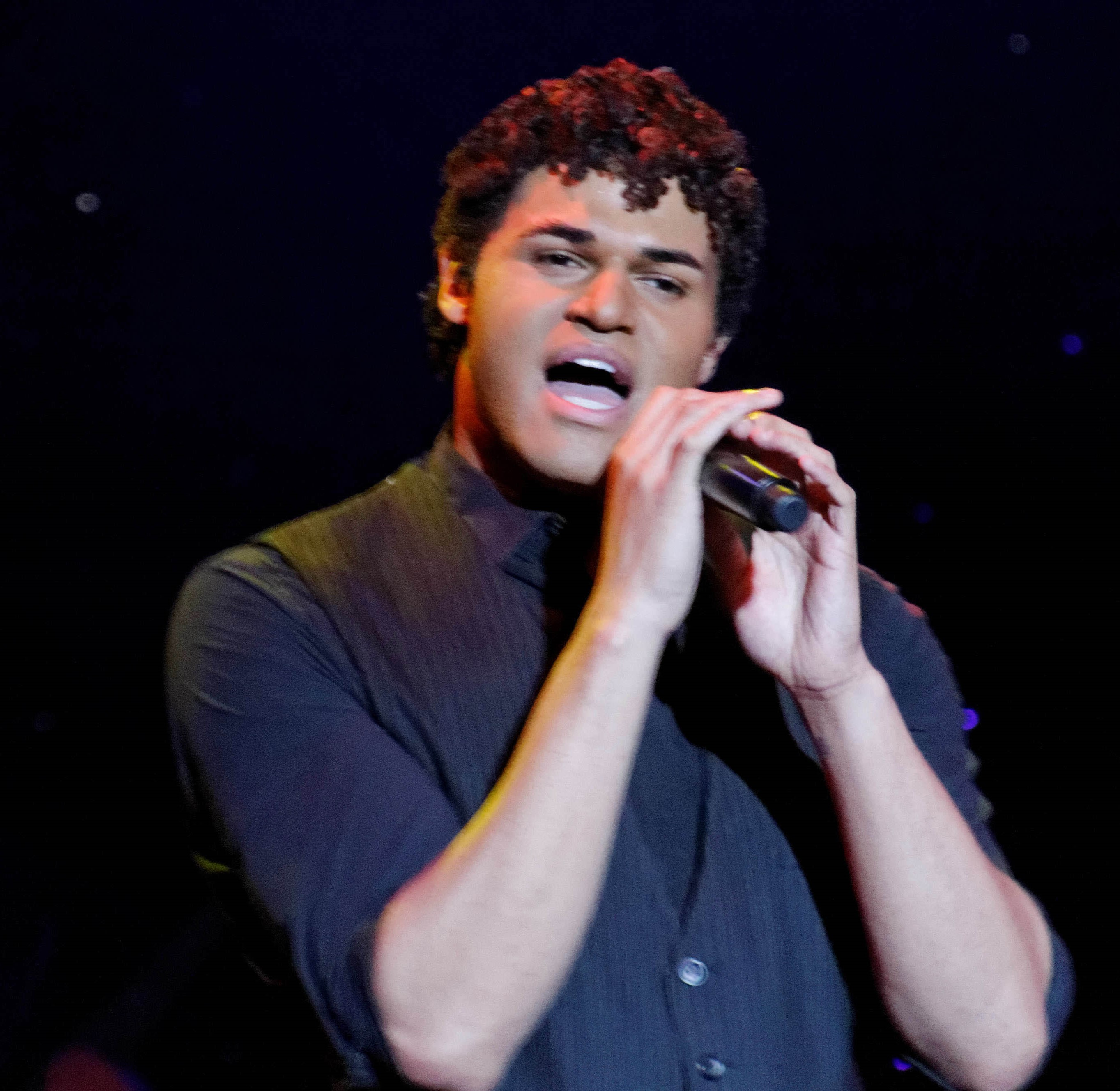 Close-up of American Idol season one finalist Ejay Day, performing on the cruise liner MS Veendam in 2012.